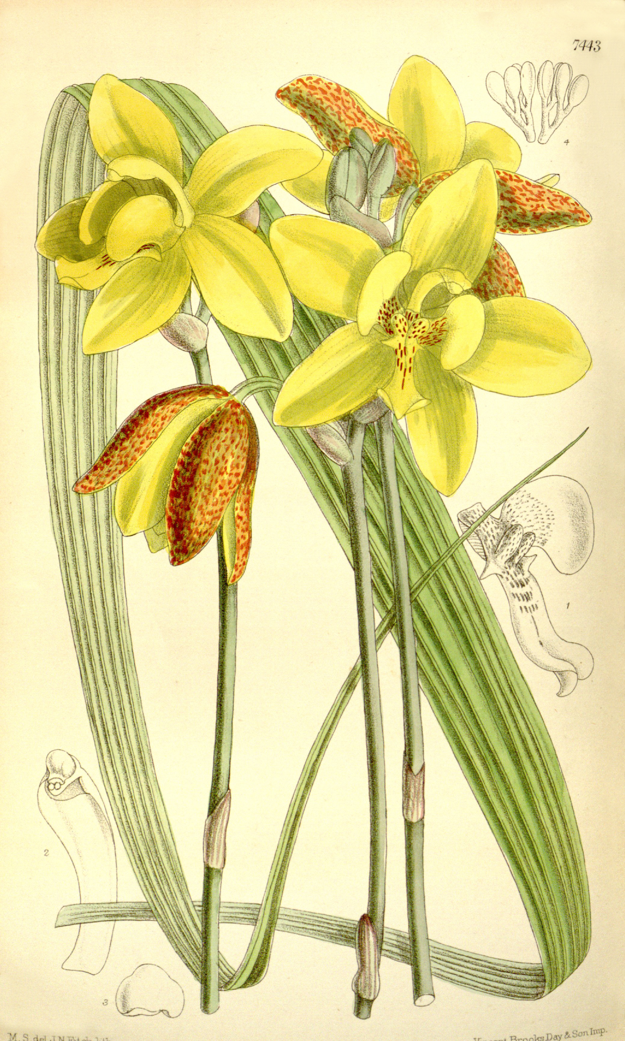 Illustration of Spathoglottis kimballiana